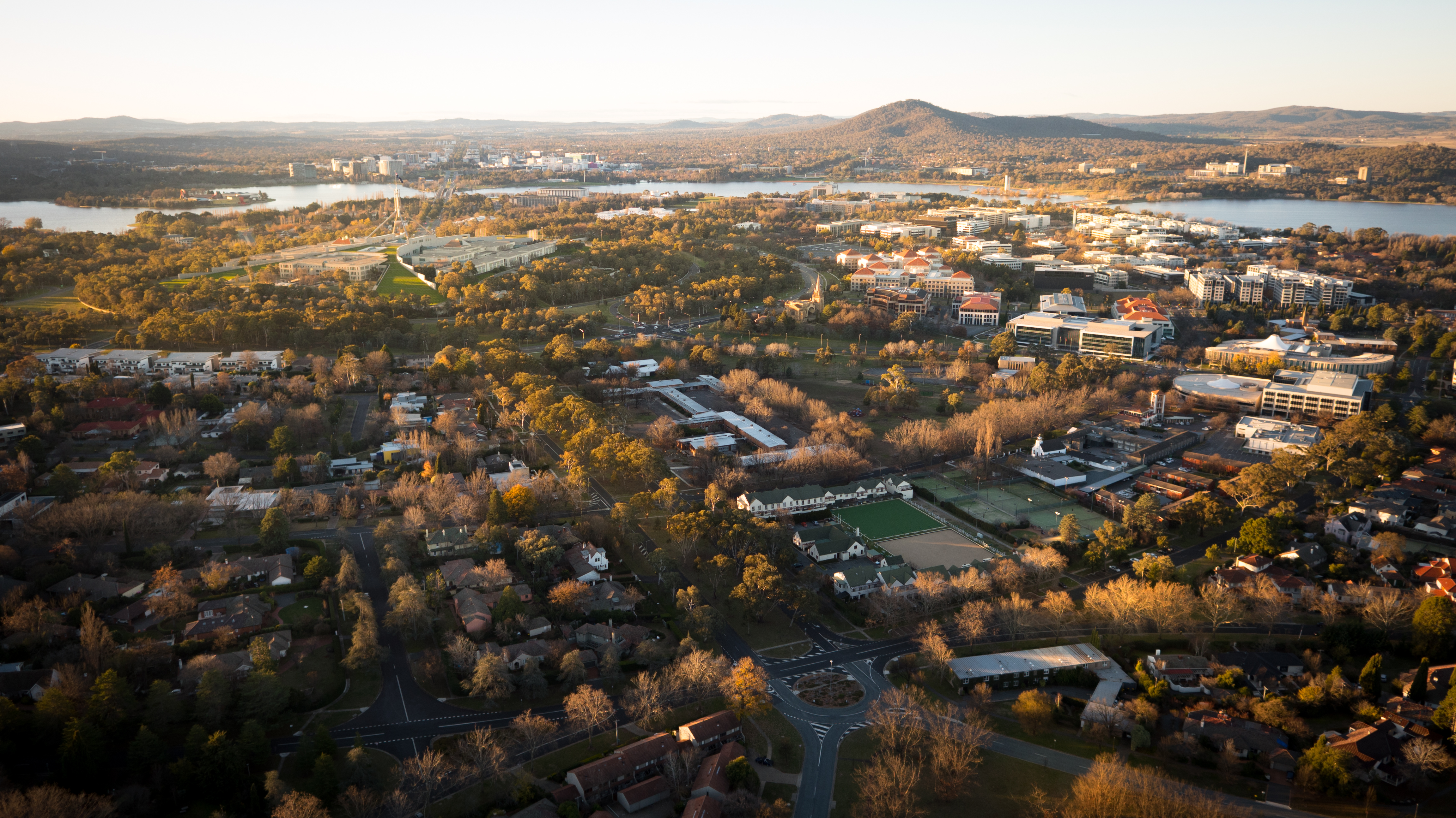 Aerial image of Canberra's Capital Hill. Visible is the Parliament House, the suburb of Barton, and the suburb of Forrest.